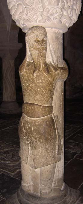 The Giant Finn, from the crypt of Lund Cathedral